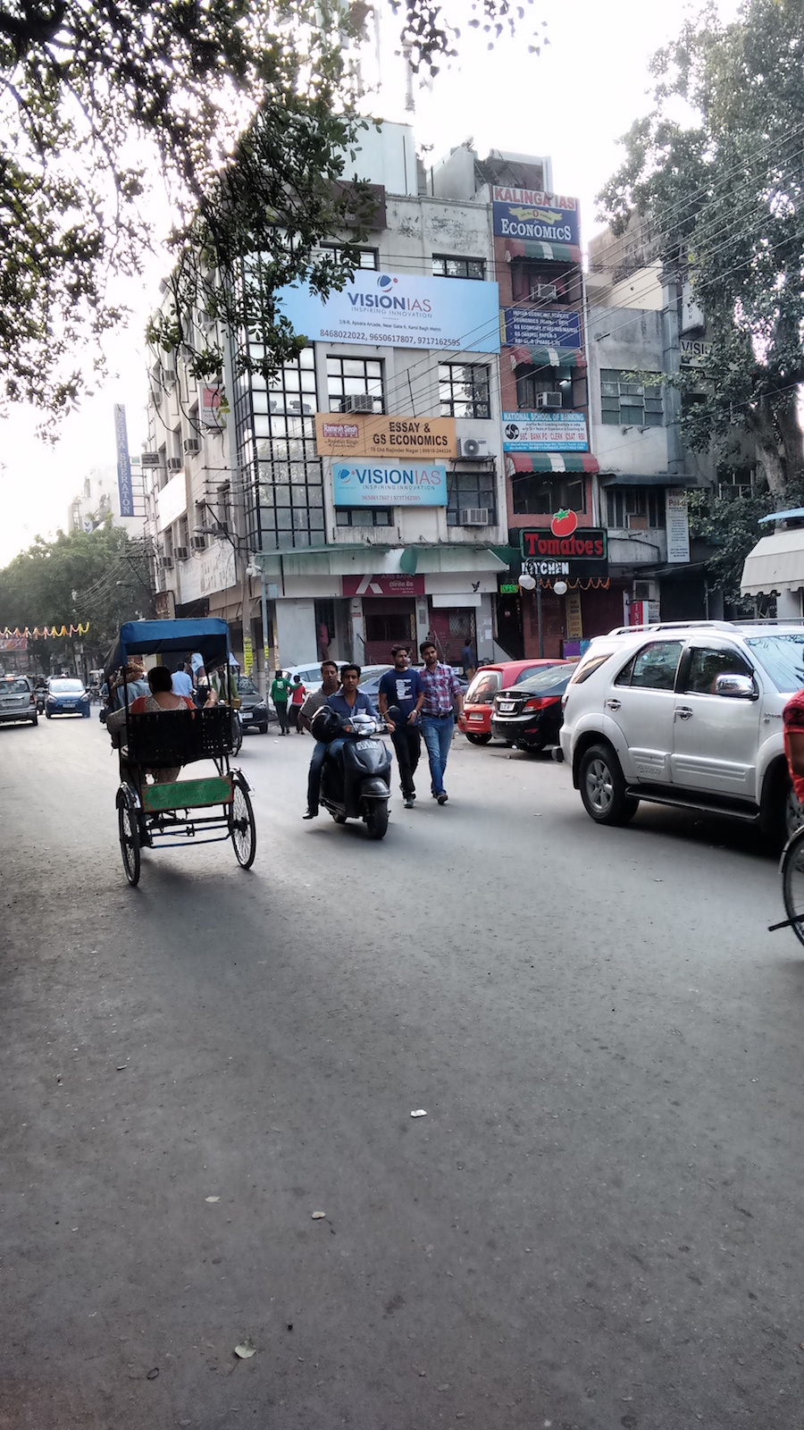 Hoarding showing ads for UPSC civil services coaching institutes.